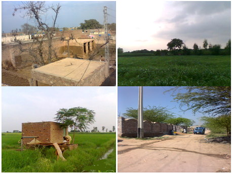 Pictures are taken in the village Behilpur